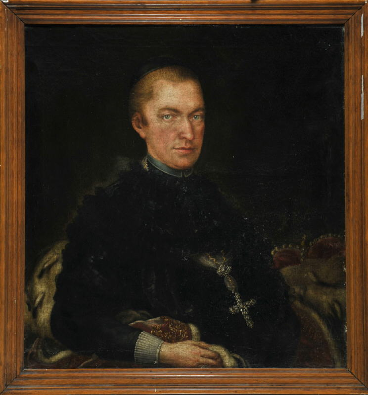 Portrait of Rupertus II. von Neuenstein, prince-abbot of Kempten (1785-1793)